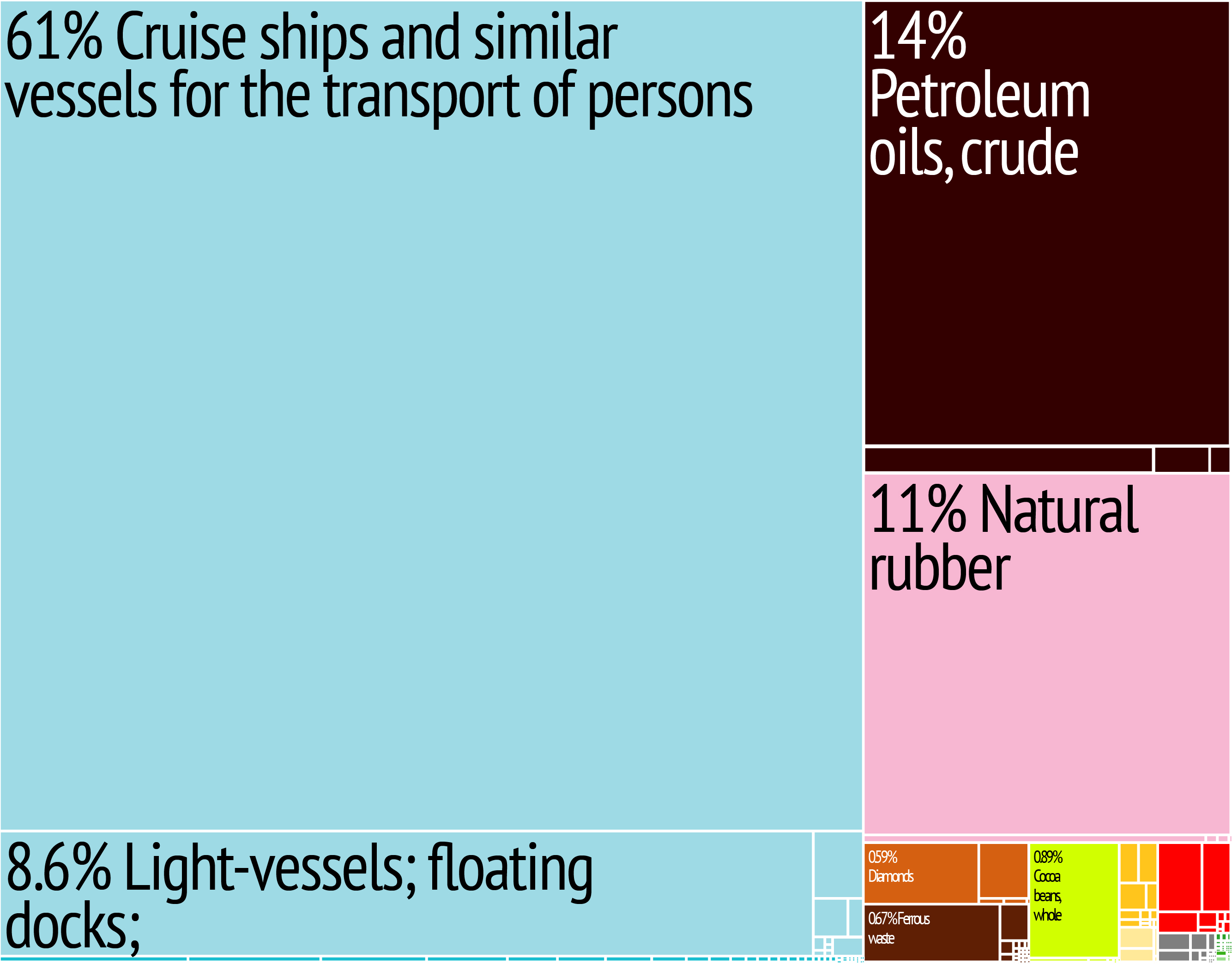 Liberia Export Treemap from MIT Harvard Economic Complexity Observatory